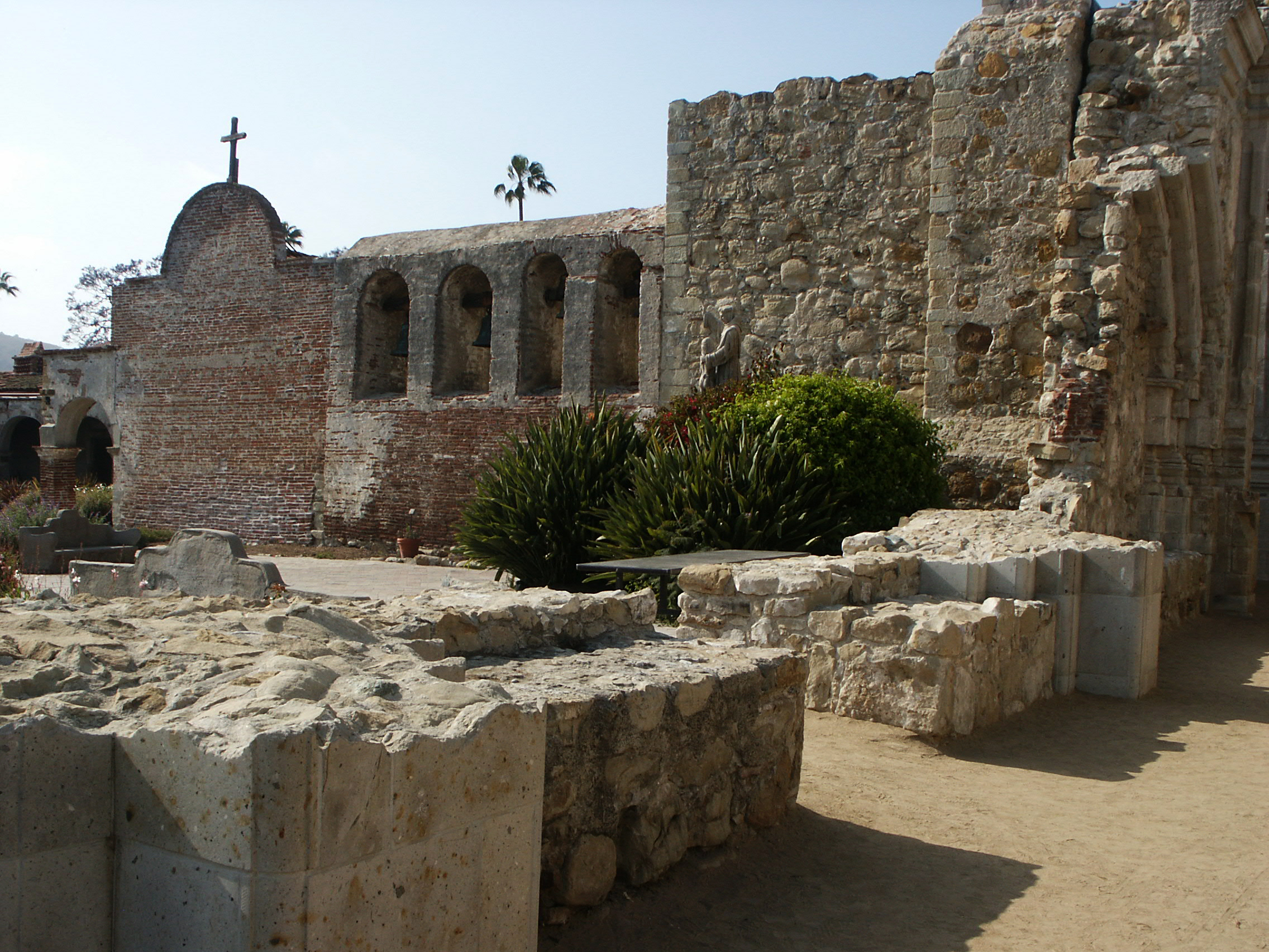 Mission San Juan Capistrano Garden - Great Stone Church Ruins - building was destroyed in the 1812 earthquake